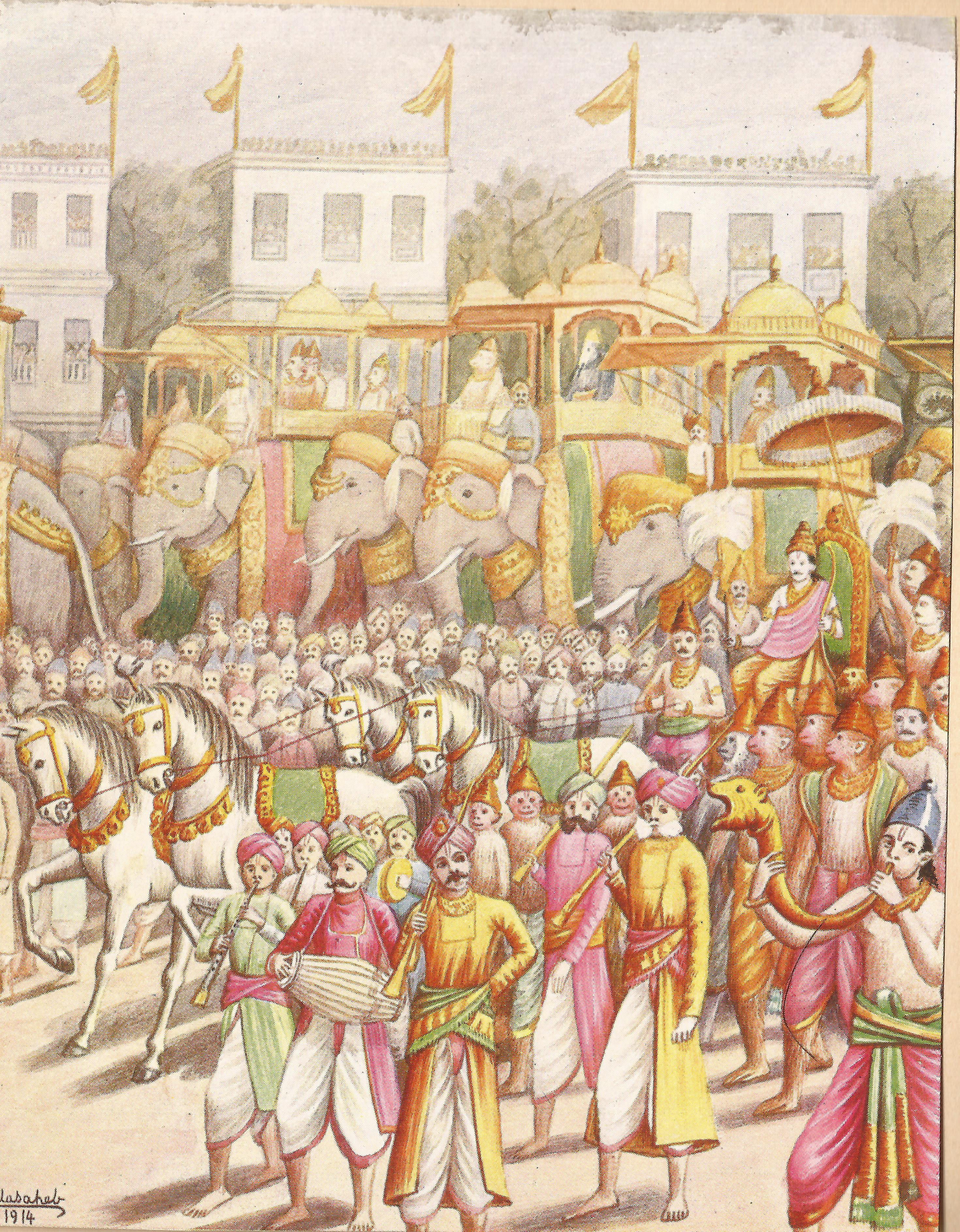 Maruti flew in advance and conveyed the happy news of Rama's return to Bharata and others. Their joy knew no bounds. Whole city assembled to welcome Rama who was taken into procession.